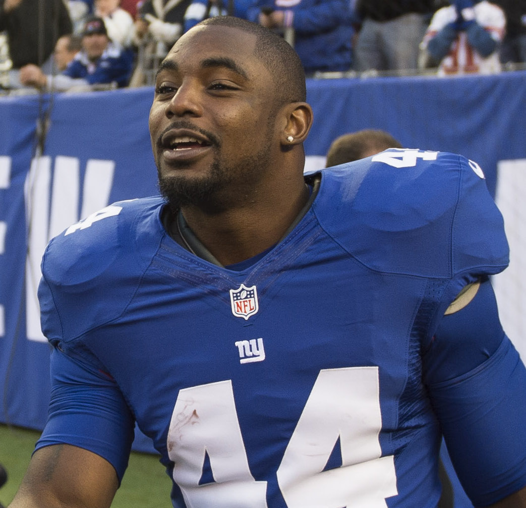 New York Giants running back, Ahmad Bradshaw, during a game against the Pittsburgh Steelers on November 4, 2012.